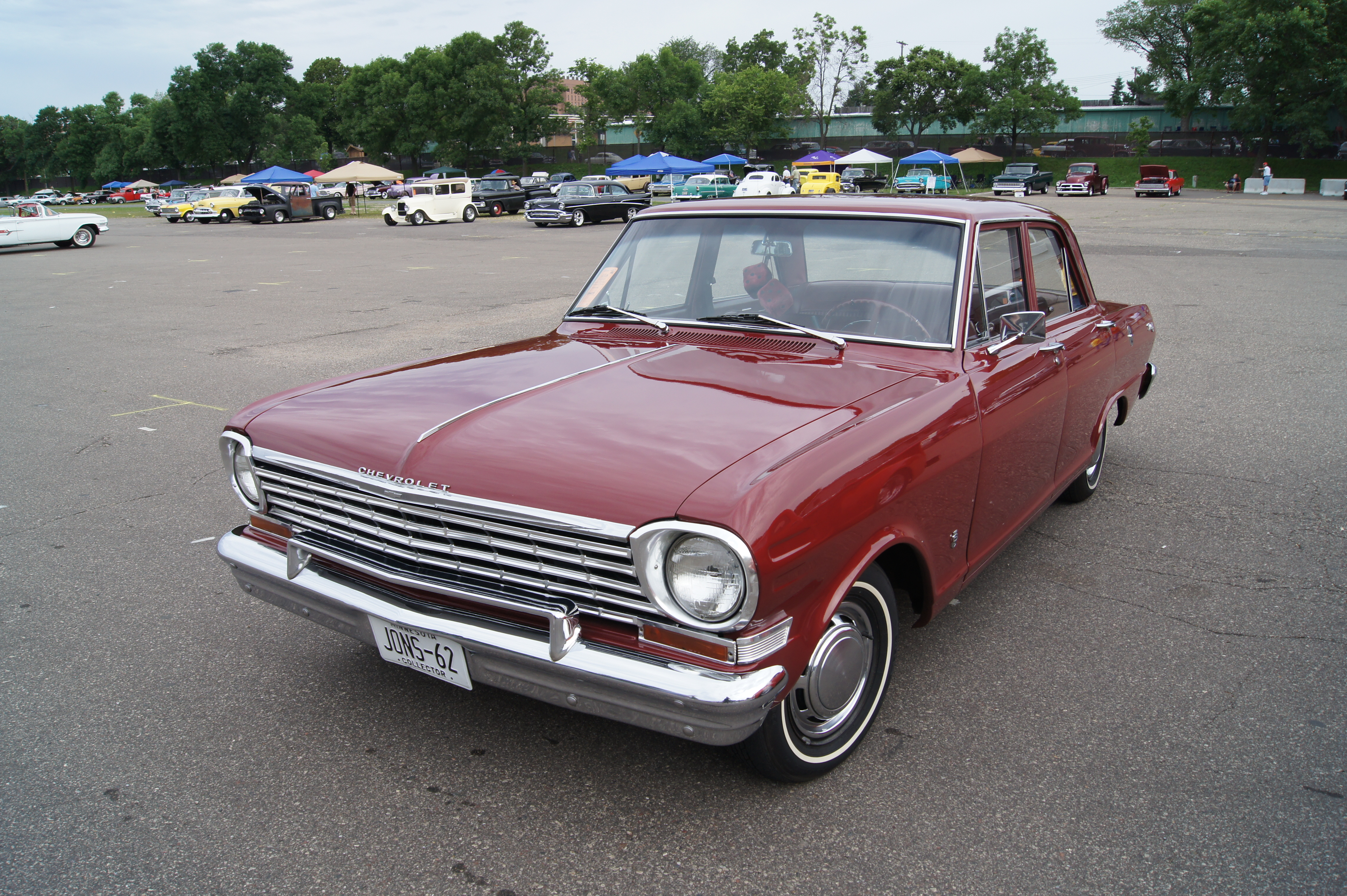 The car depicted is a poor representation.Its states a 62 on the licensee plate but the car has a 63 grill and hoos as well as Ford Pinto hubcaps. At the Minnesota Street Rod Association "Back to the Fifties" show, June 2012, Minnesota State Fairgrounds, St. Paul MN